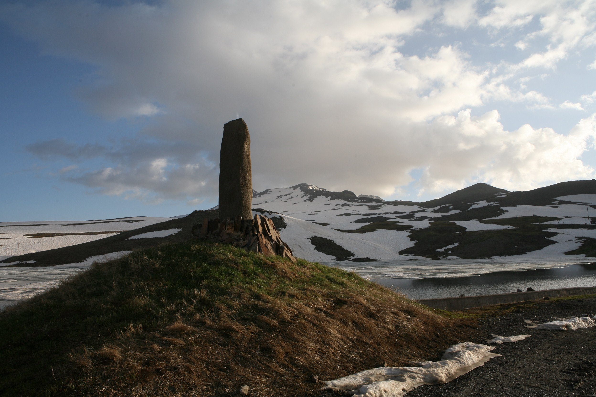 Vishap against the Background of Snow-Capped Mt Aragats